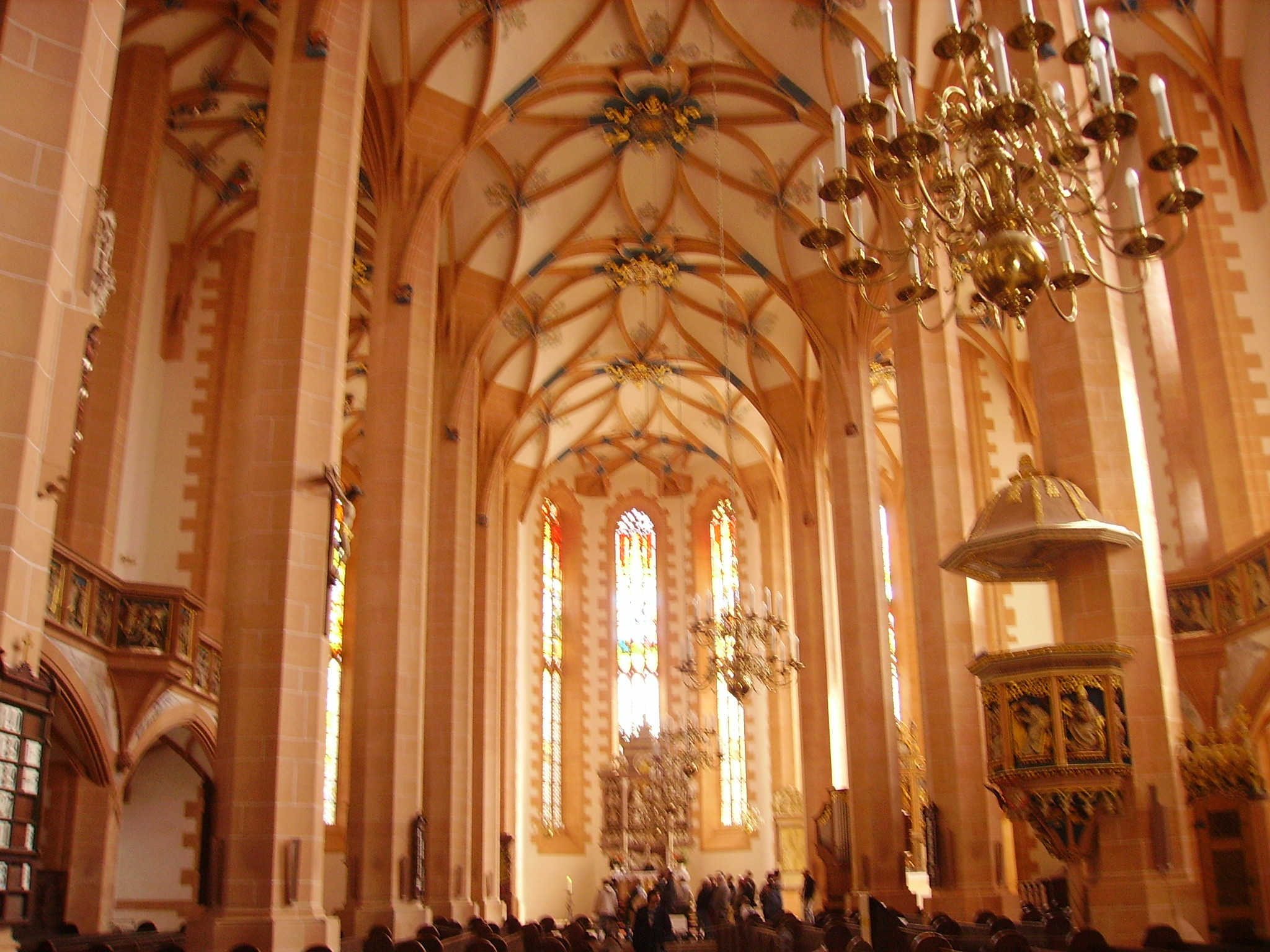 Interior of St. Anne in Annaberg-Buchholz